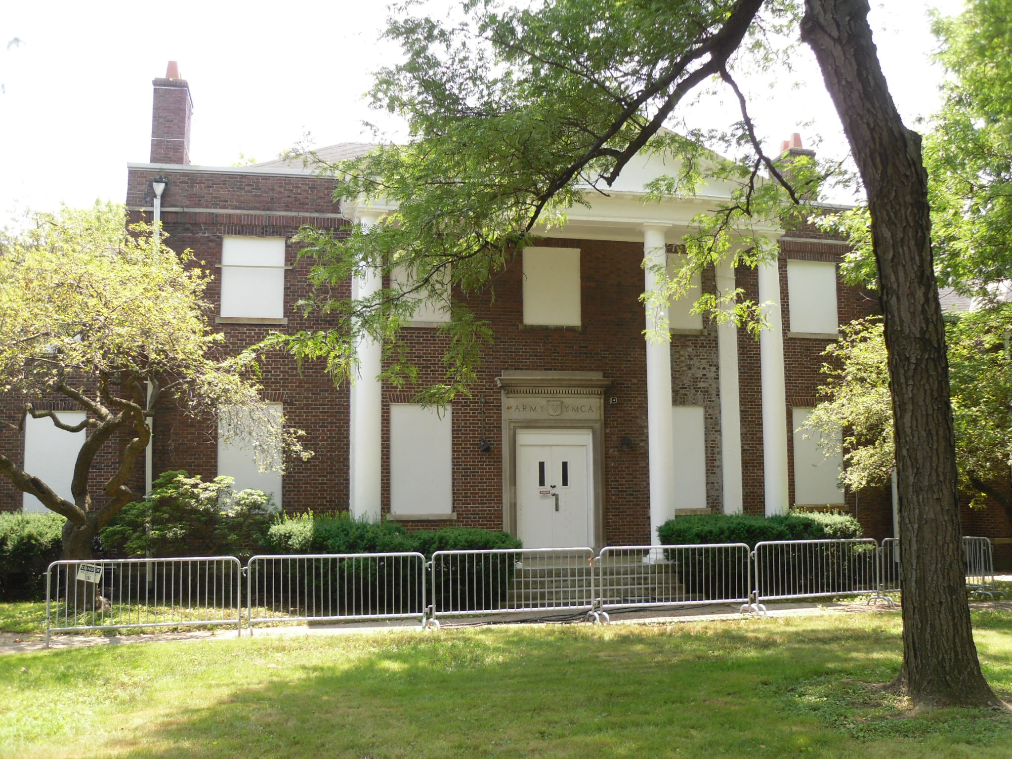 Governors Island - New York City